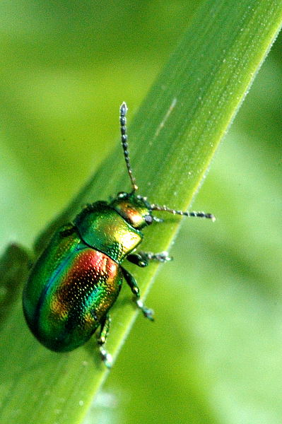 Picture taken in Commanster, Belgian High Ardennes . Species: Chrysolina fastuosa